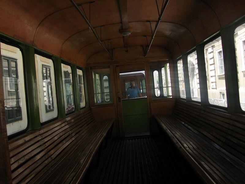 inside Gemene tram